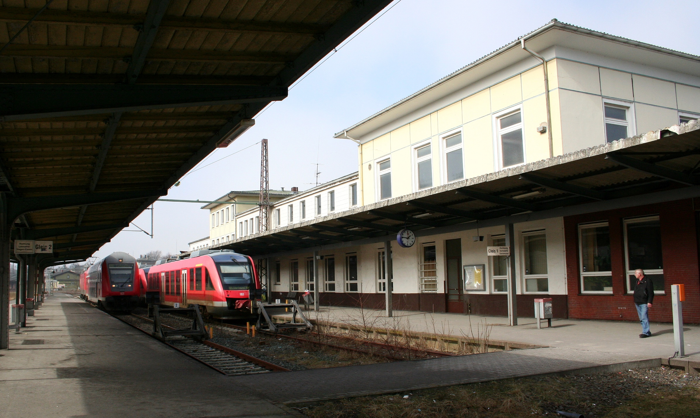 Description: Bahnhof Iserlohn ("Westbahnhof") Source: selbst fotografiert Date: 19. März 2006 Author: Asio otus